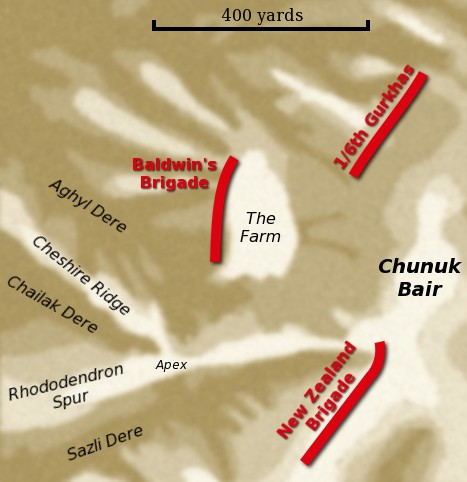 Map of British positions for the August 9, 1915 assault on Chunuk Bair, during the Battle of Chunuk Bair